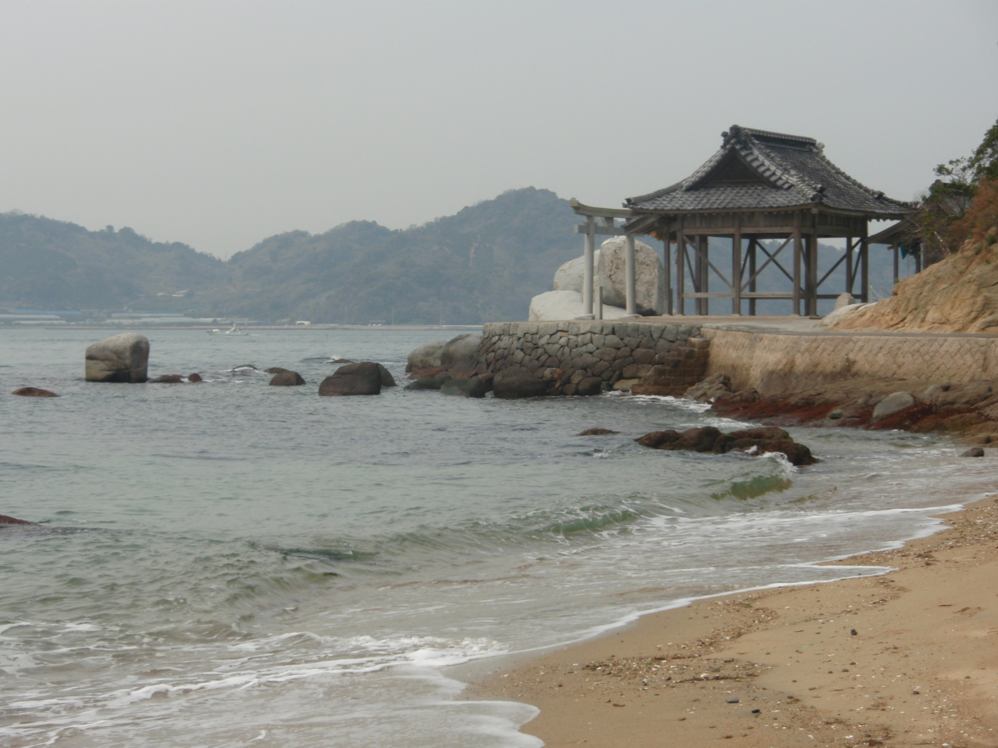 Cape Shiraishi at Matsuyama city, Ehime Prefecture